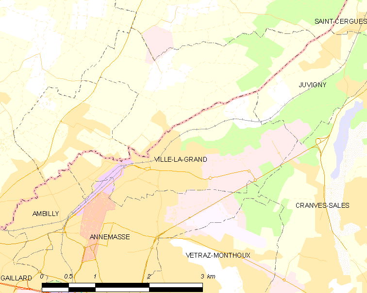 Map of French municipality Ville-la-Grand